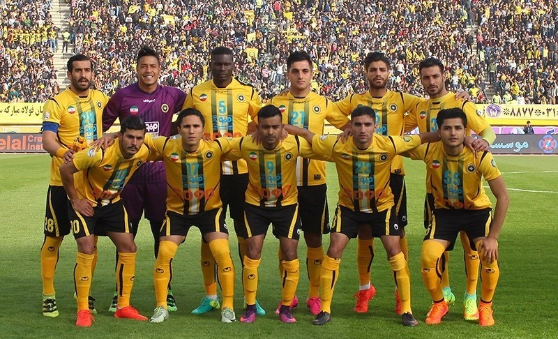 Sepahan-Esteghlal match